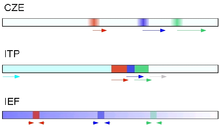 Comparison of some electrophoretic techniques, namely zone electrophoresis, isotachophoresis and iso-electric focusing. Green, blue, red: analytes. rrows give an indication of the relative speed and direction of electrophoresis. In zone electrophoresis, the analytes are separated according to their electrophoretic mobilities In isotachophoresis , the analytes are separated according to their electrophoretic mobilities but remain sandwiched between the terminating and leading electrophoresis. In iso-electric focussing, a pH-gradient is created and the analytes are focussed at the location where the pH matches their pI